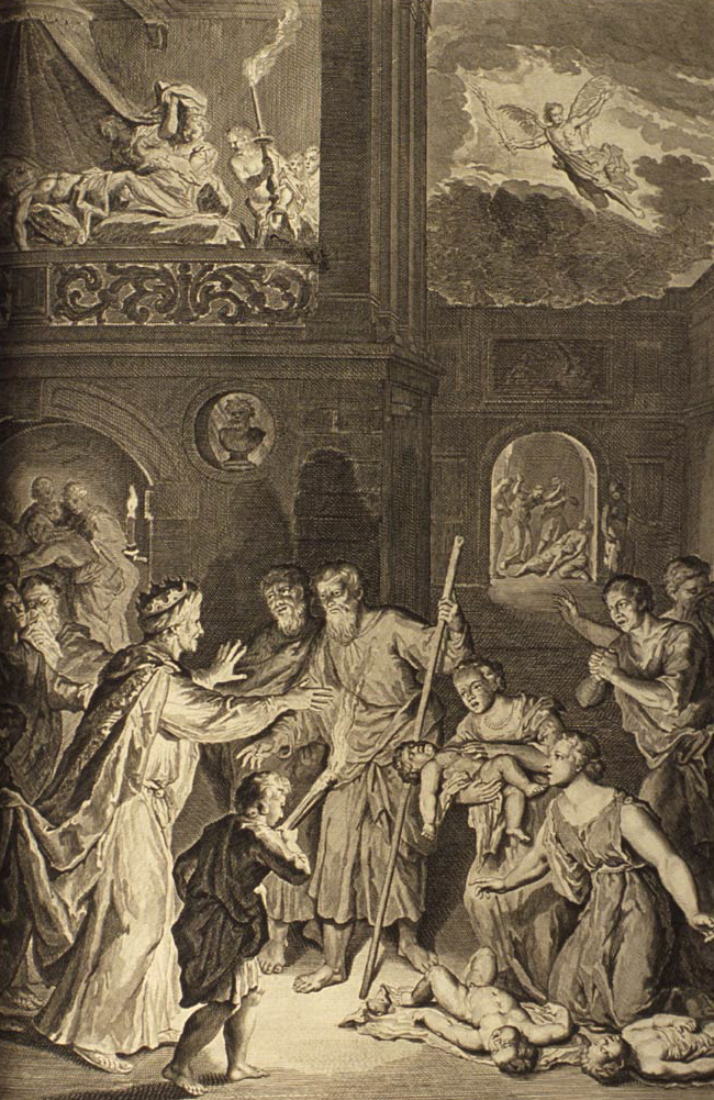 The Egyptian first born destroyed, as in Exodus 12:29-33: "And it came to pass, that at midnight the Lord smote all the firstborn in the land of Egypt, from the firstborn of Pharaoh that sat on his throne unto the firstborn of the captive that was in the dungeon; and all the firstborn of cattle. And Pharaoh rose up in the night, he, and all his servants, and all the Egyptians; and there was a great cry in Egypt; for there was not a house where there was not one dead. And he called for Moses and Aaron by night, and said, Rise up, and get you forth from among my people, both ye and the children of Israel; and go, serve the Lord, as ye have said. Also take your flocks and your herds, as ye have said, and be gone; and bless me also. And the Egyptians were urgent upon the people, that they might send them out of the land in haste; for they said, We be all dead men."; illustration from the 1728 Figures de la Bible; illustrated by Gerard Hoet (1648–1733) and others, and published by P. de Hondt in The Hague; image courtesy Bizzell Bible Collection, University of Oklahoma Libraries